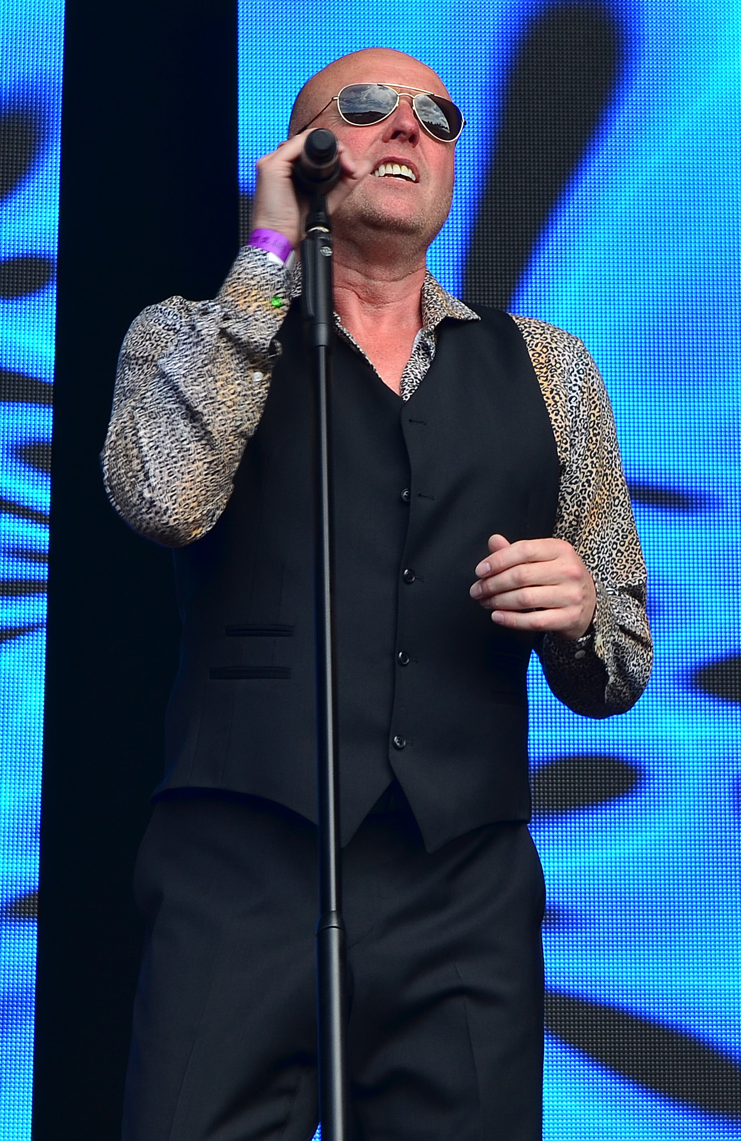 Glenn Gregory performing in 2014